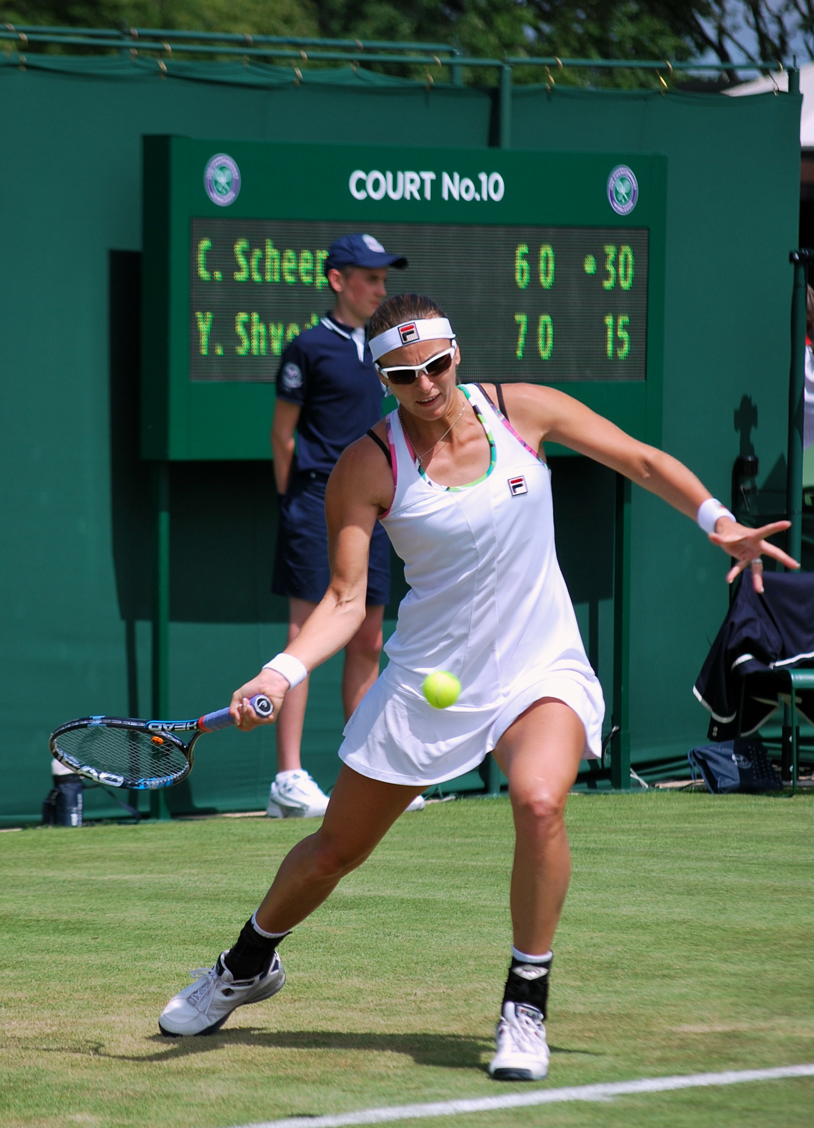 Yaroslava Shvedova during her first round match with Chanelle Scheepers on Day 2 of Wimbledon 2012.